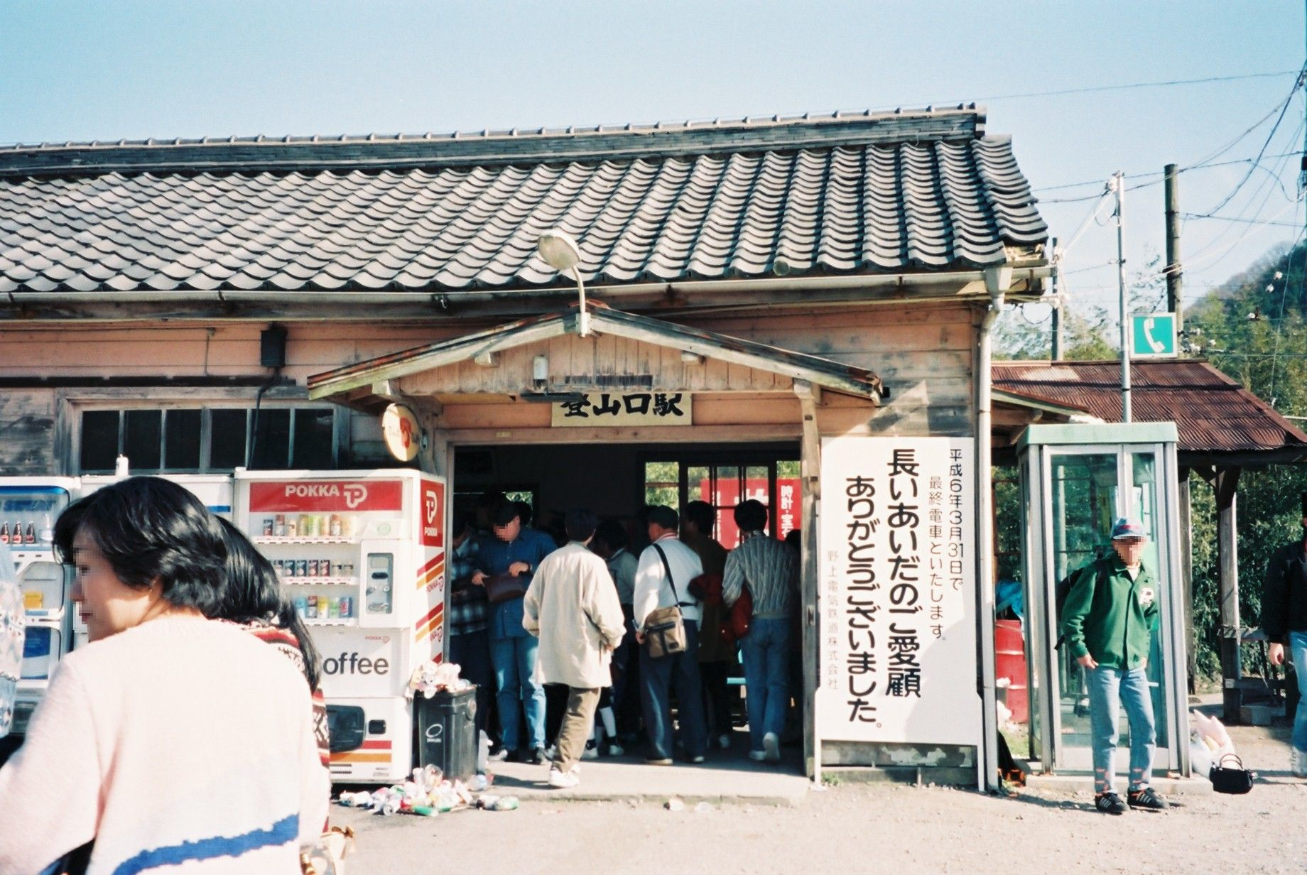 Nokami Electric Railway Tozanguchi Station. It was taken at 1994/03/31.